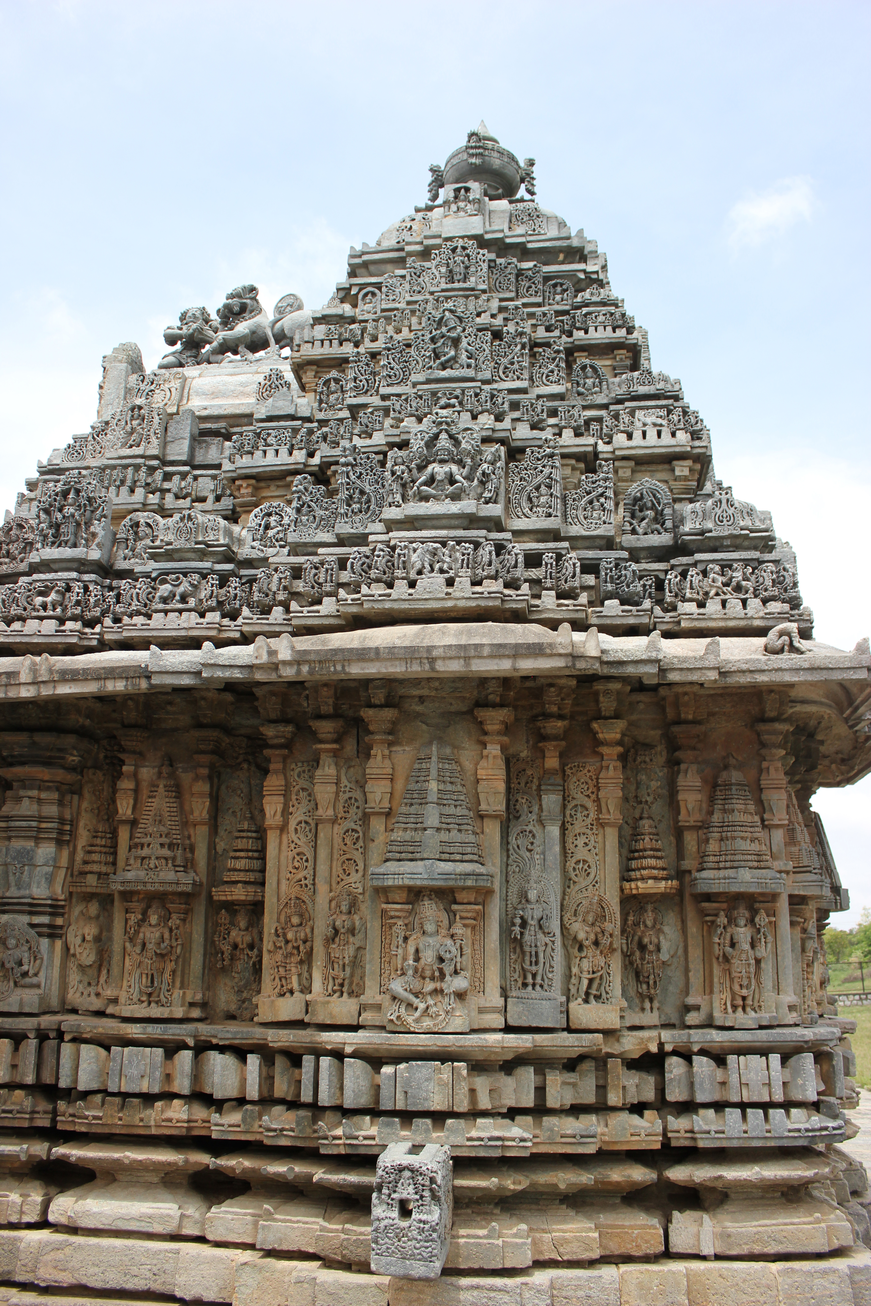 This photograph was taken by me at Mosale town in Hassan district of Karnataka state, India. Mosale is home to the twin temples built by Hoysala Empire King Veera Ballala II in 1200 A.D.; the Nageshvara and Chennakeshava temples.